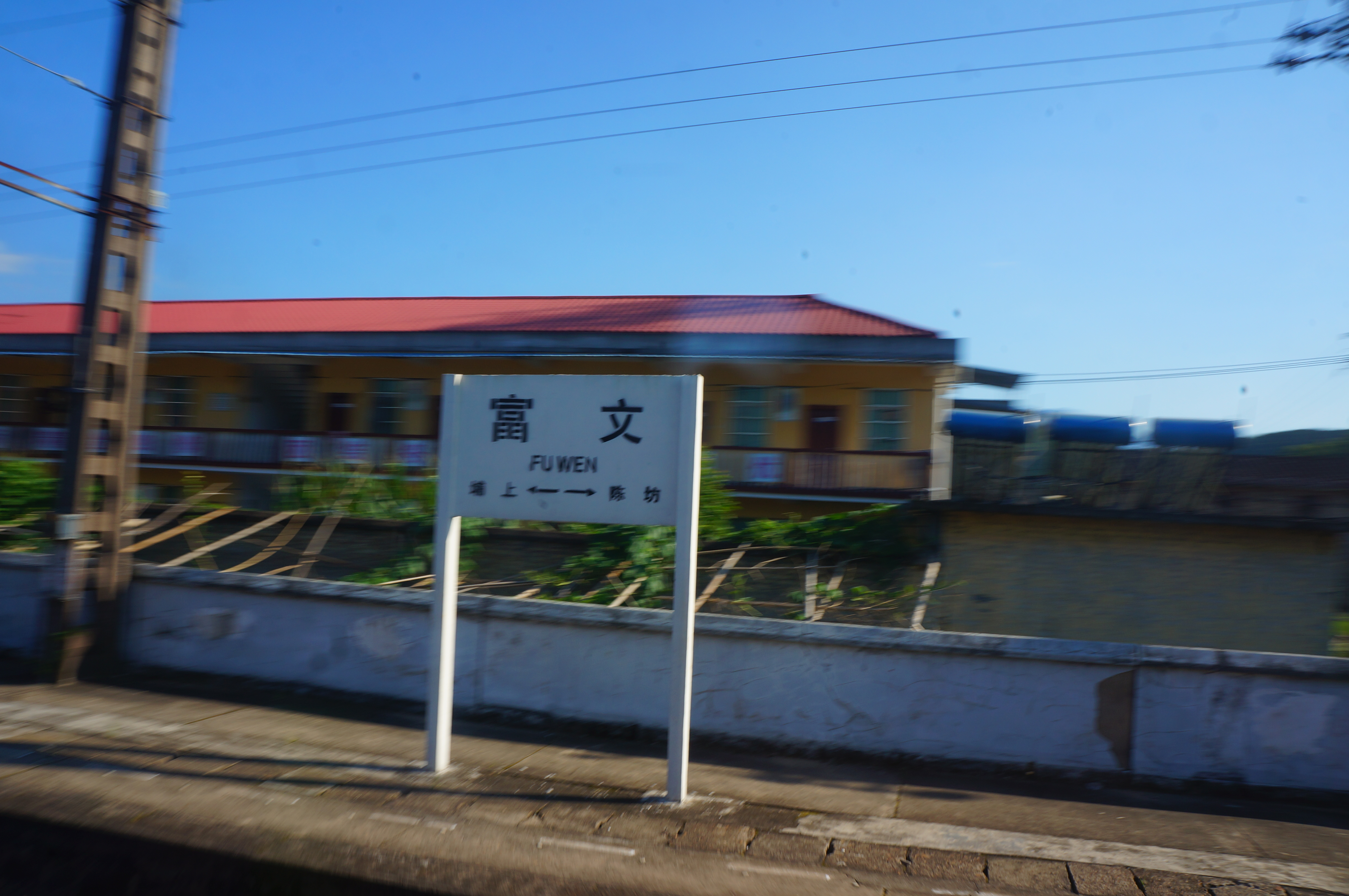 201806 Nameboard of Fuwen Station